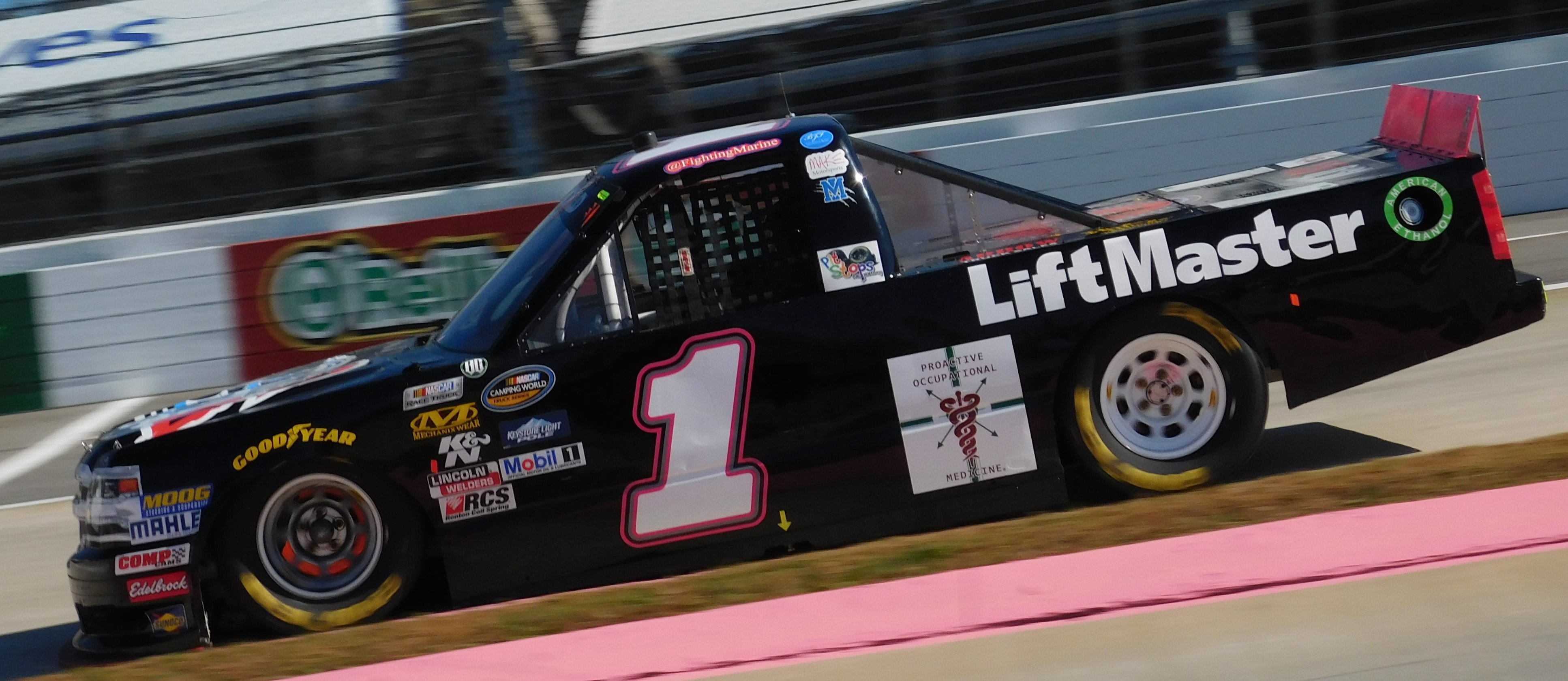 Josh White's No. 1 Hurricane Master Garage Doors/LiftMaster Chevrolet at Martinsville Speedway in 2016